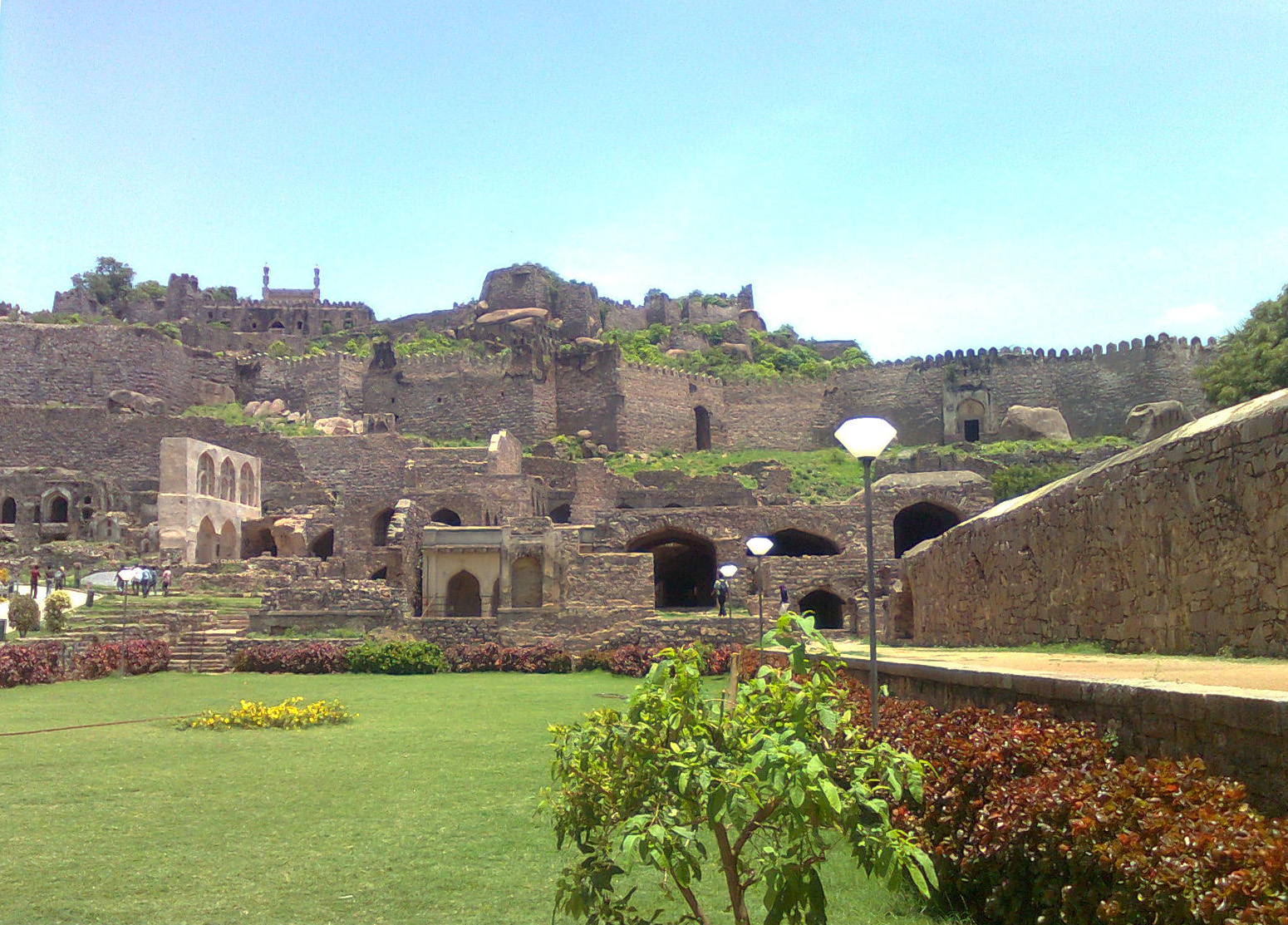 Ruined Fort Debris